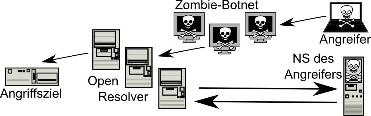 Scheme of DNS Amplification Attack by abusing open resolvers. With annotations in German. If you want to modify this file, take a look at SVG at File:Dns-amplification-attack_open-resolver_german.svg